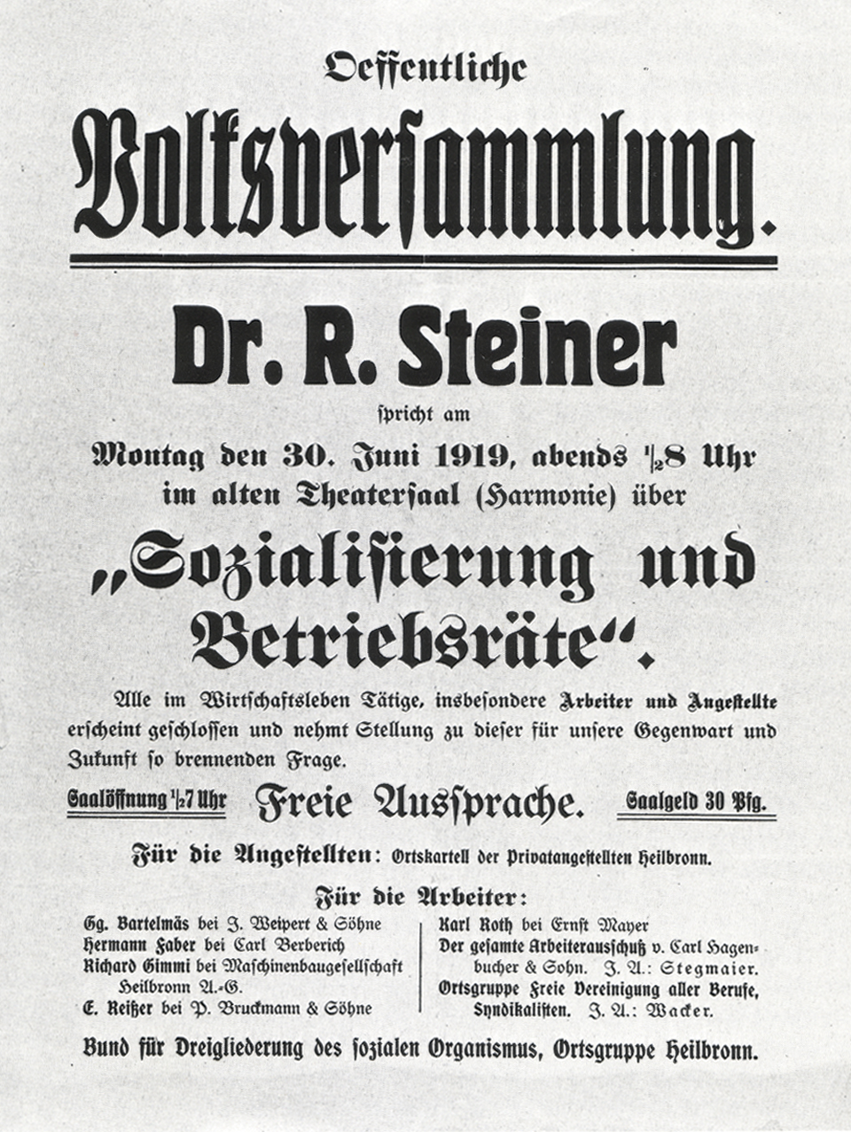 flyer of the Association for Social Threefolding, 1919